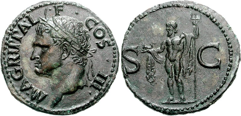 CNG 75, Lot: 979. Estimate $750. Agrippa. Died AD 12. Æ As (11.02 g, 6h). Rome mint. Struck under Gaius (Caligula), AD 37-41. Head left, wearing rostral crown / Neptune standing left, holding small dolphin and trident. RIC I 58 (Gaius). Good VF, dark brown patina, earthen highlights, lightly smoothed.